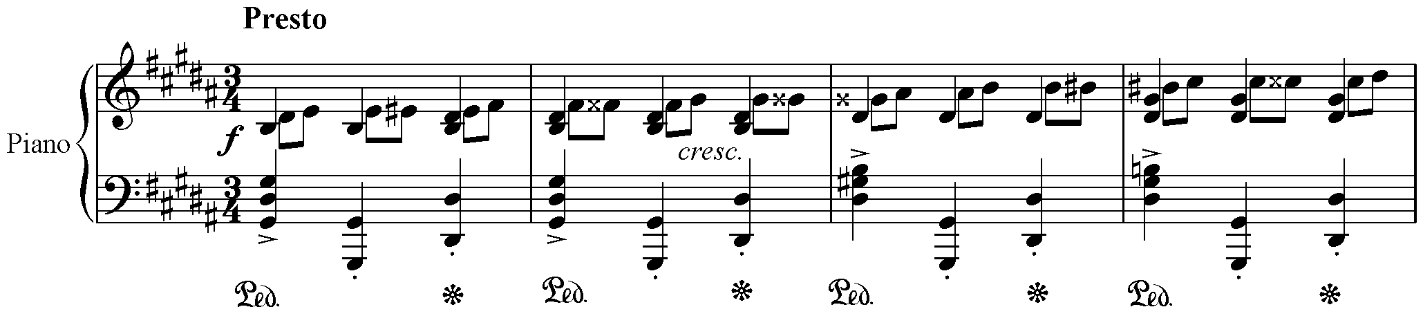 4 first bars of Chopins prelude 12 op. 28